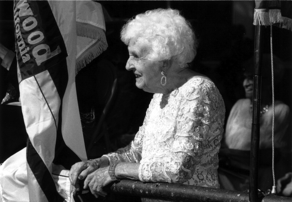 Photo of Gladys Waddingham of Inglewood, California, taken in the 1990s by George Garrigues, the uploader. I release all right according to the CCA license chosen herewith.